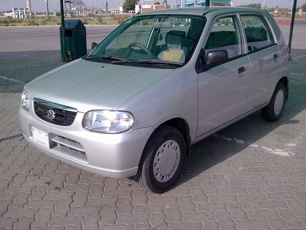 Alto VXR 2005, Pakistan.